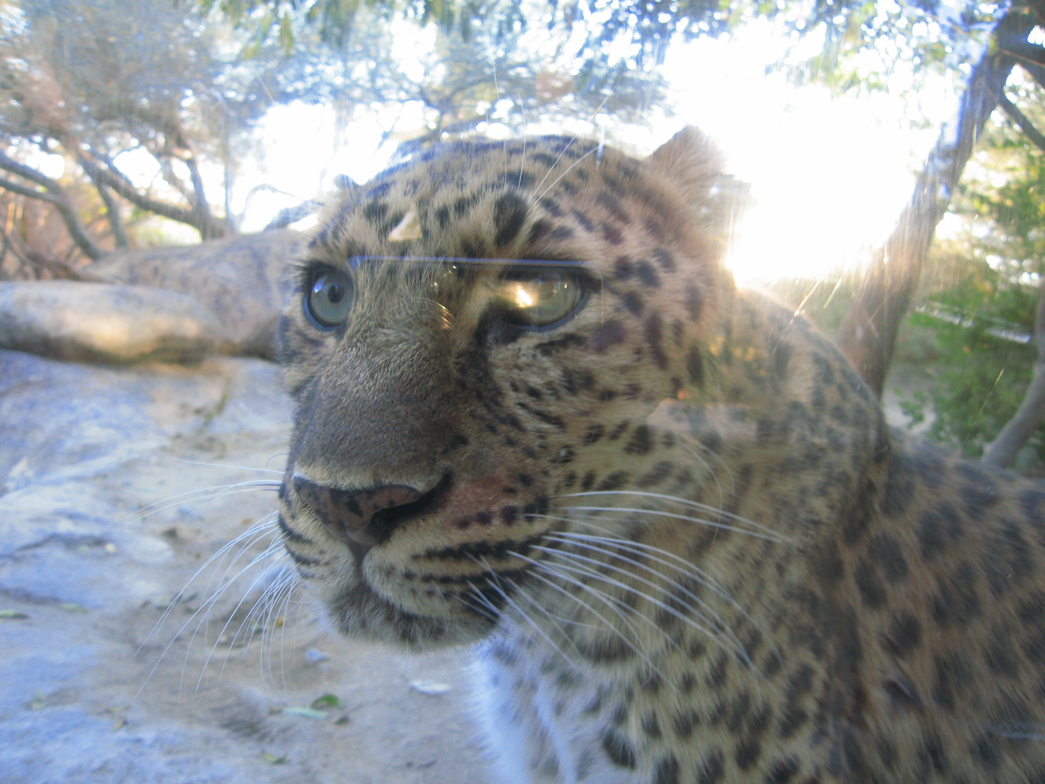 A leopard staring at visitors through the safety glass in the Living Desert Zoo in Palm Desert, CA.